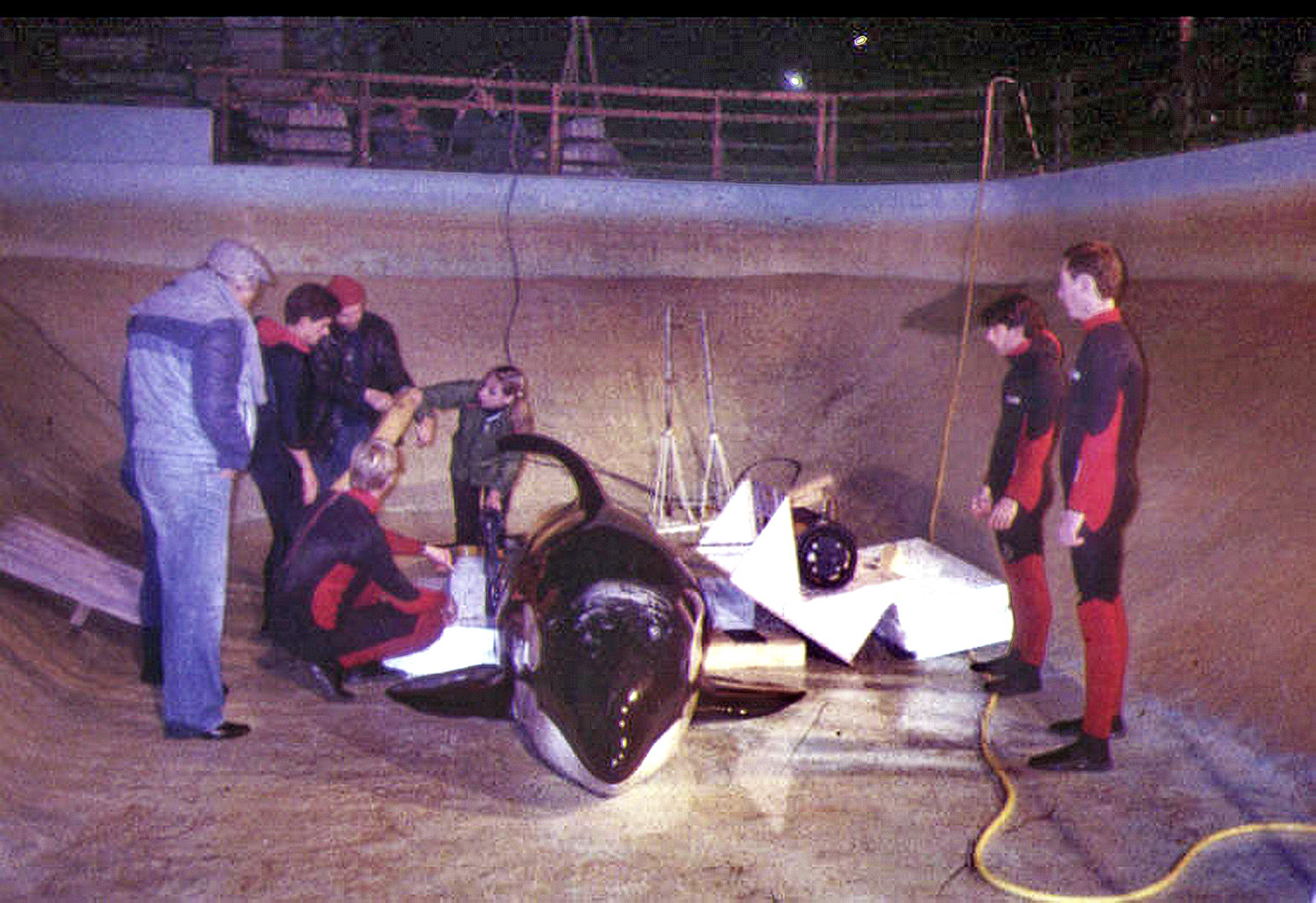 X-ray and ultrasounds by the user (first case in the world !) on an orcus orca in Antibes's marineland.